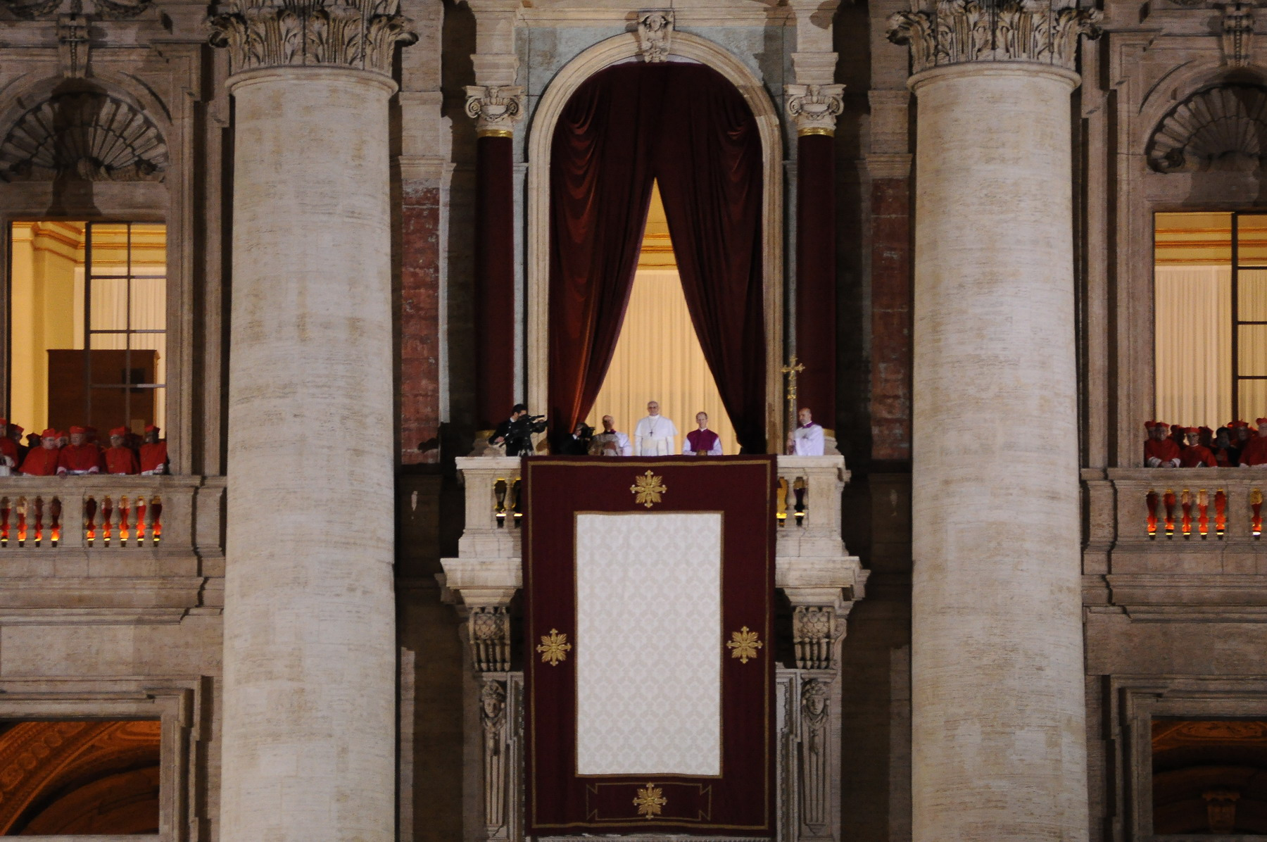 Pope Francis, March 13, 2013: photo taken from St. Peter's Square, just after the pope's election.